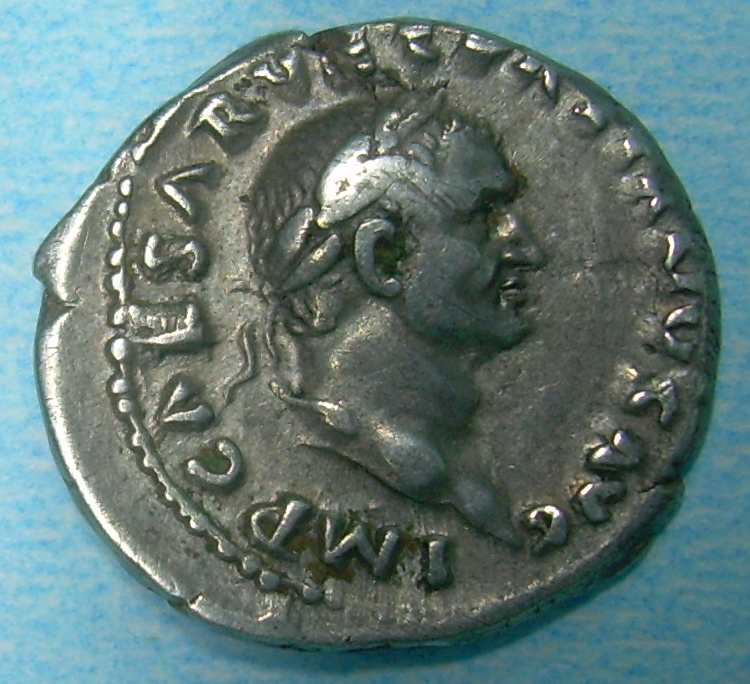 Веспавиан денарий